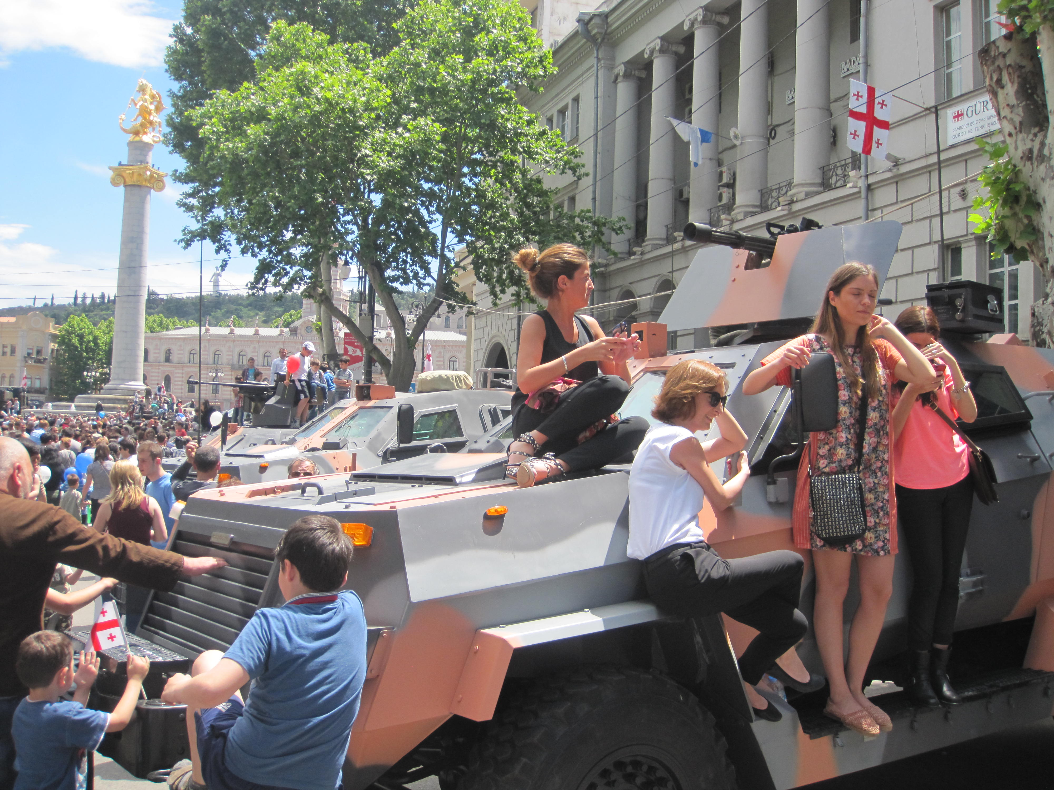 Independence Day of Georgia. Tbilisi. 26.05.2014